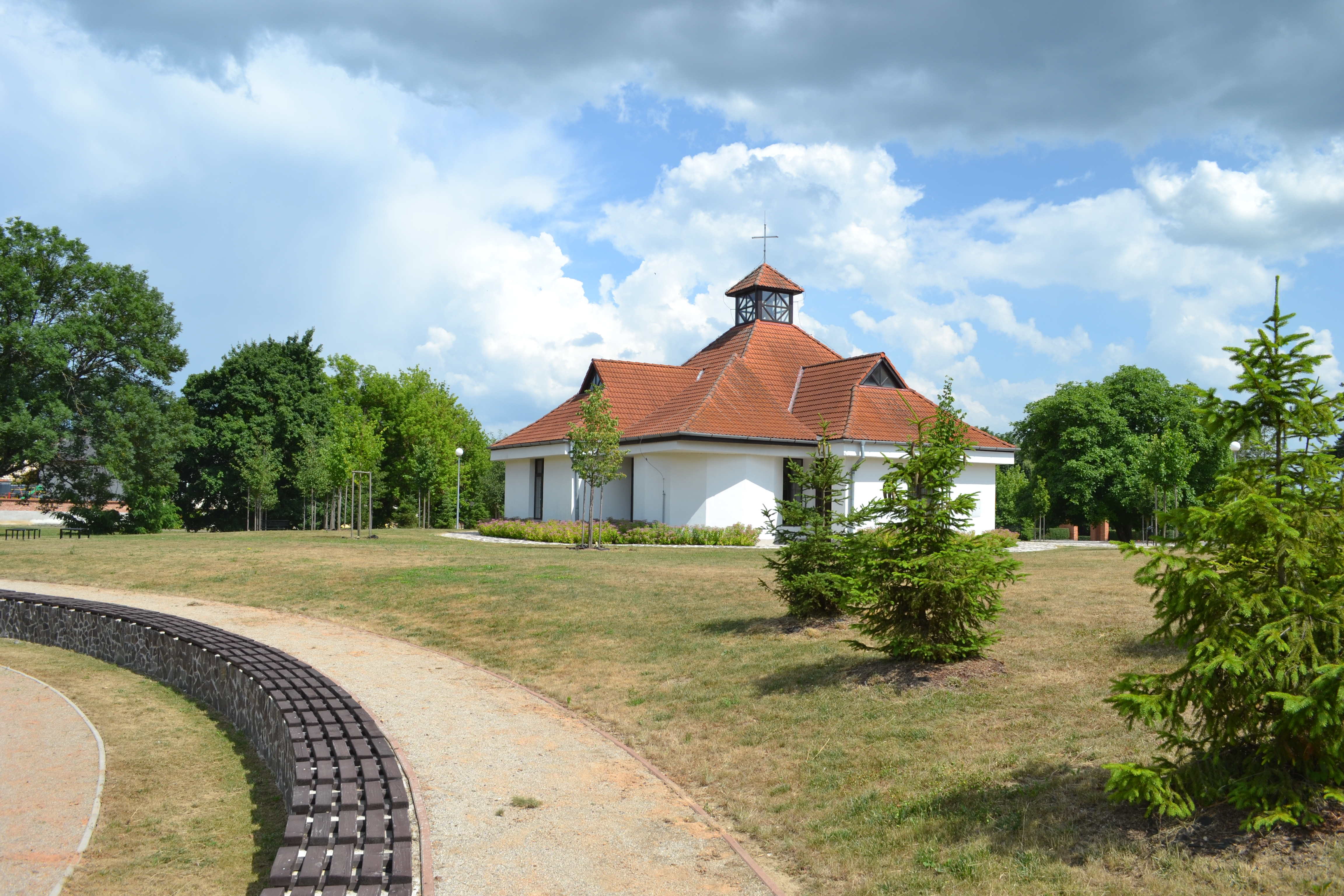 Parish Church of St. Gorazd in the village ČížSlovenčina: Farský kostol sv. Gorazda v obci Číž